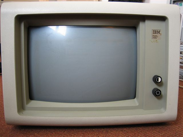 The original IBM PC monitor.